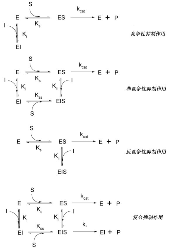 Chinese version of inhibition reactions